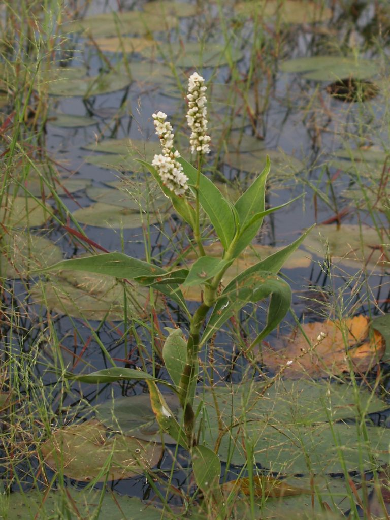 Persicaria attenuata subsp. pulchra in Thailand (17 Nov 2012). Credit: Y. Ito.